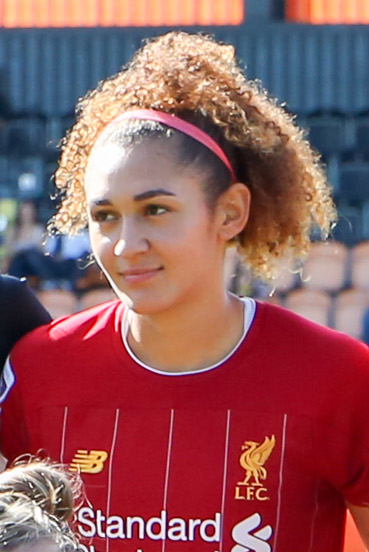 2019–20 FA WSL: Tottenham Hotspur FC Women v Liverpool FC Women, 15 September 2019 – Liverpool starting line-up.